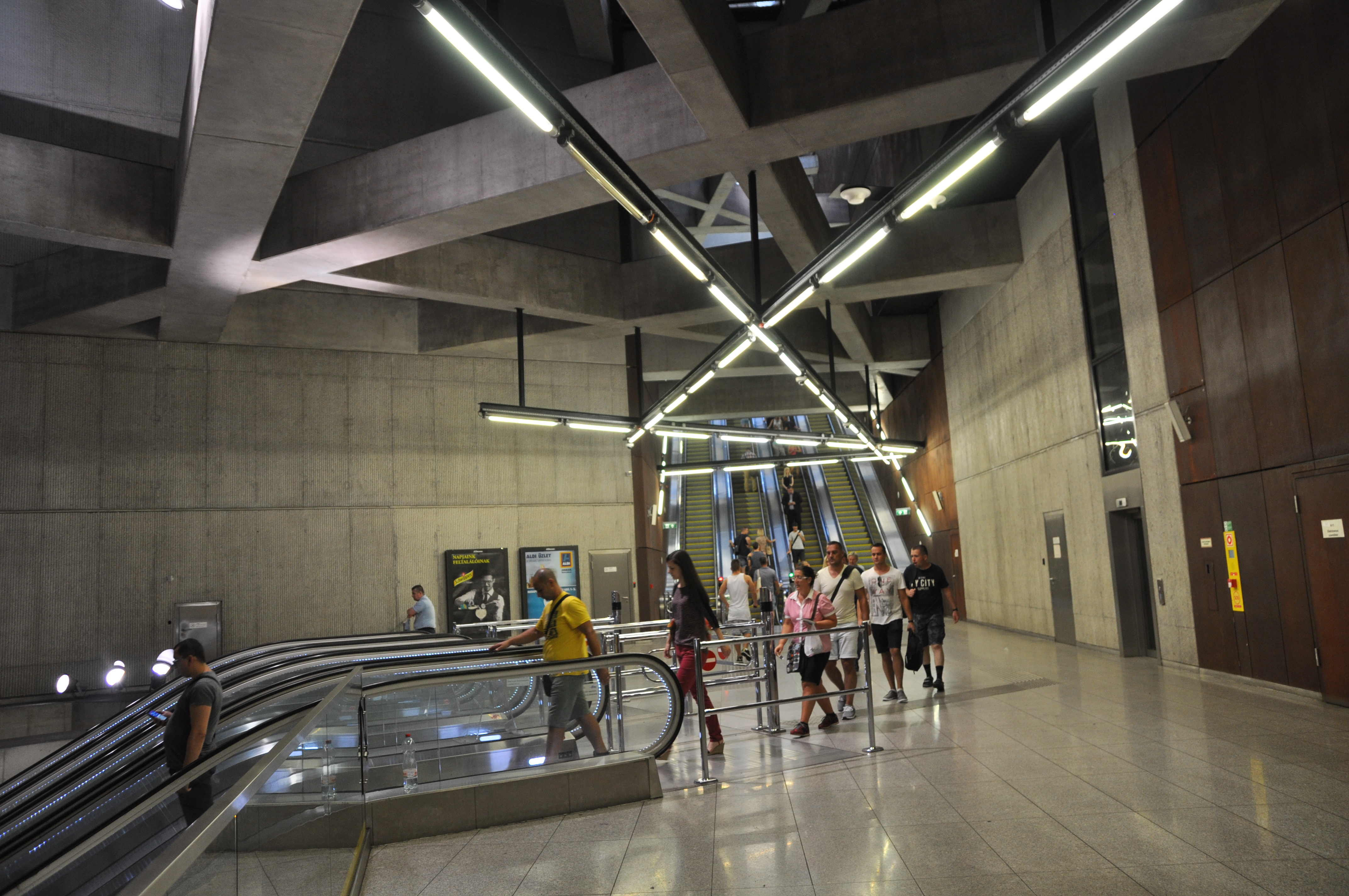 Budapest, metró 4, Fővám tér